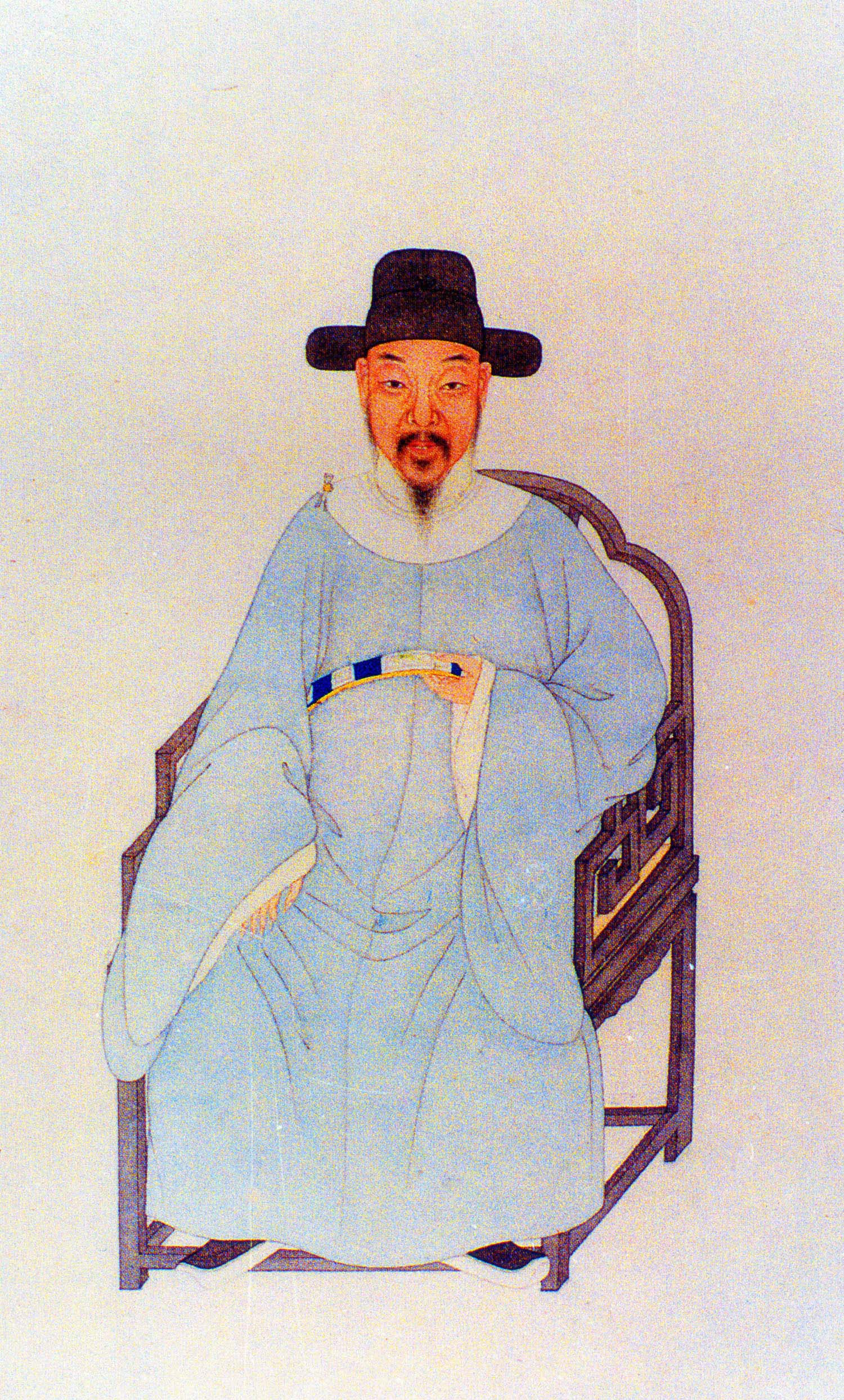 Shi Kefa